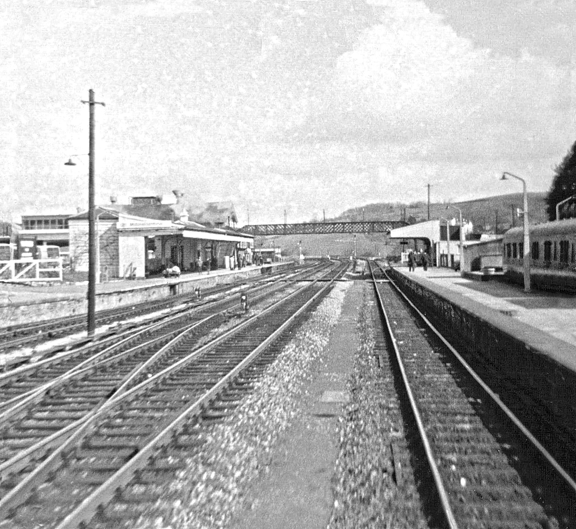 Totnes railway station, South Devon in March 1970.